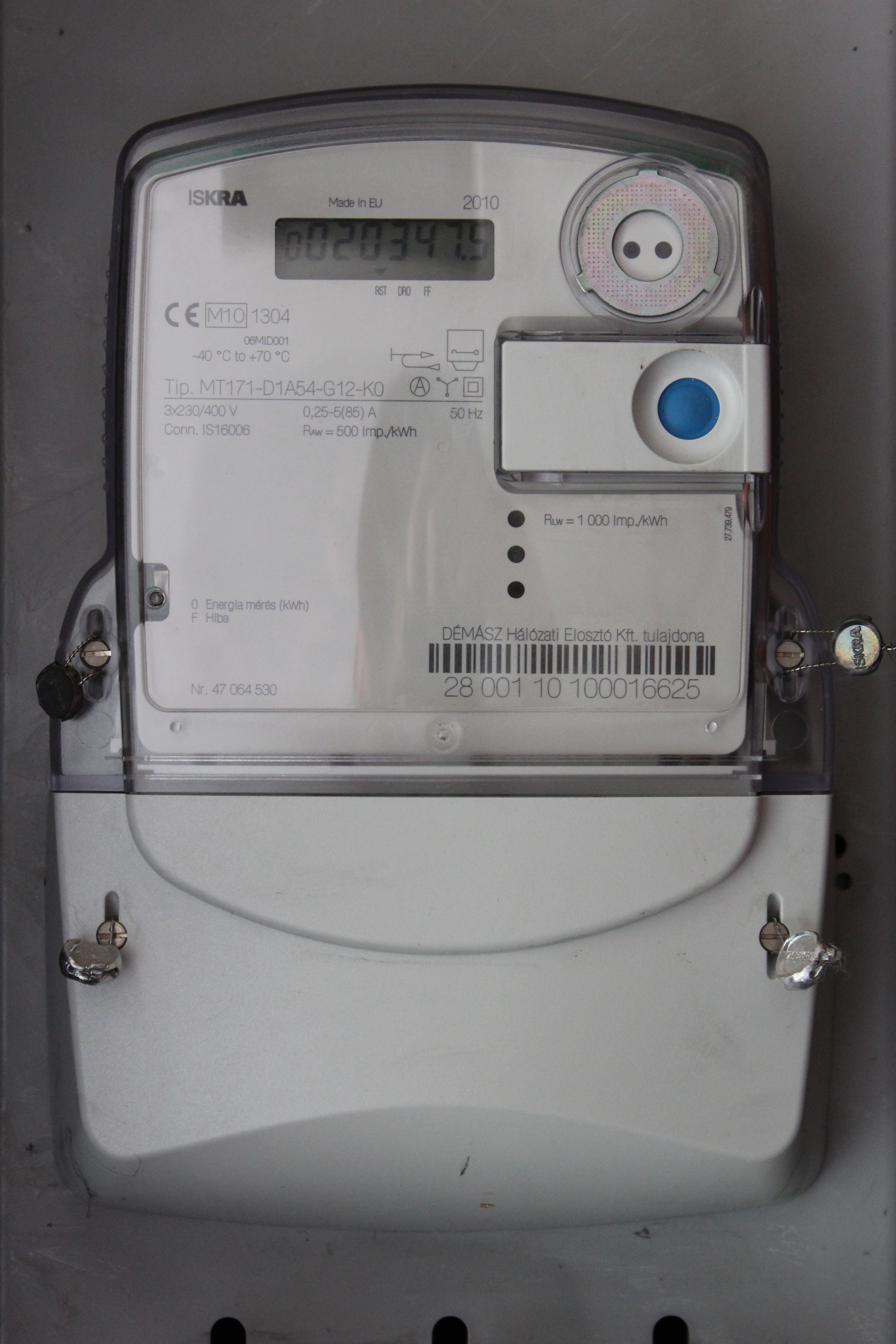 Electronic electricity meter